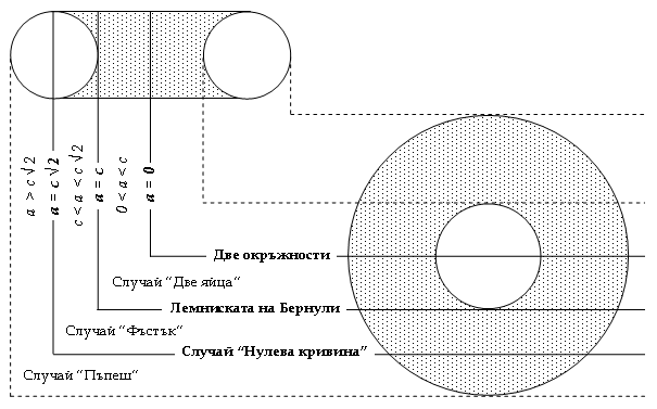 Cassini ovals as cross sections of the torus. In Bulgarian.